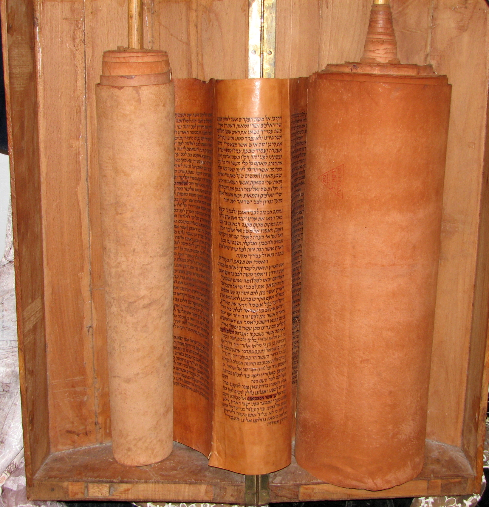 The Torah book written by Rabbi Moshe Haim Luzzato (RAMHAL, רמח"ל) in the 1740s in Acre. The scroll is made of deer skin, and the ink was concocted by boiling pomegranate peel. The book is in Luzzato's synagogue, in the Old City of Acre, Israel. This image was taken as part of the Elef Millim project trip to the Old City of Acco, which was held on Friday, 5th March 2010. To view all images uploaded as pary of the Elef Millim Project